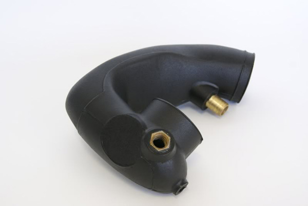 This is a image of a automotive duct manufactured from XLPE using the rotational molding process